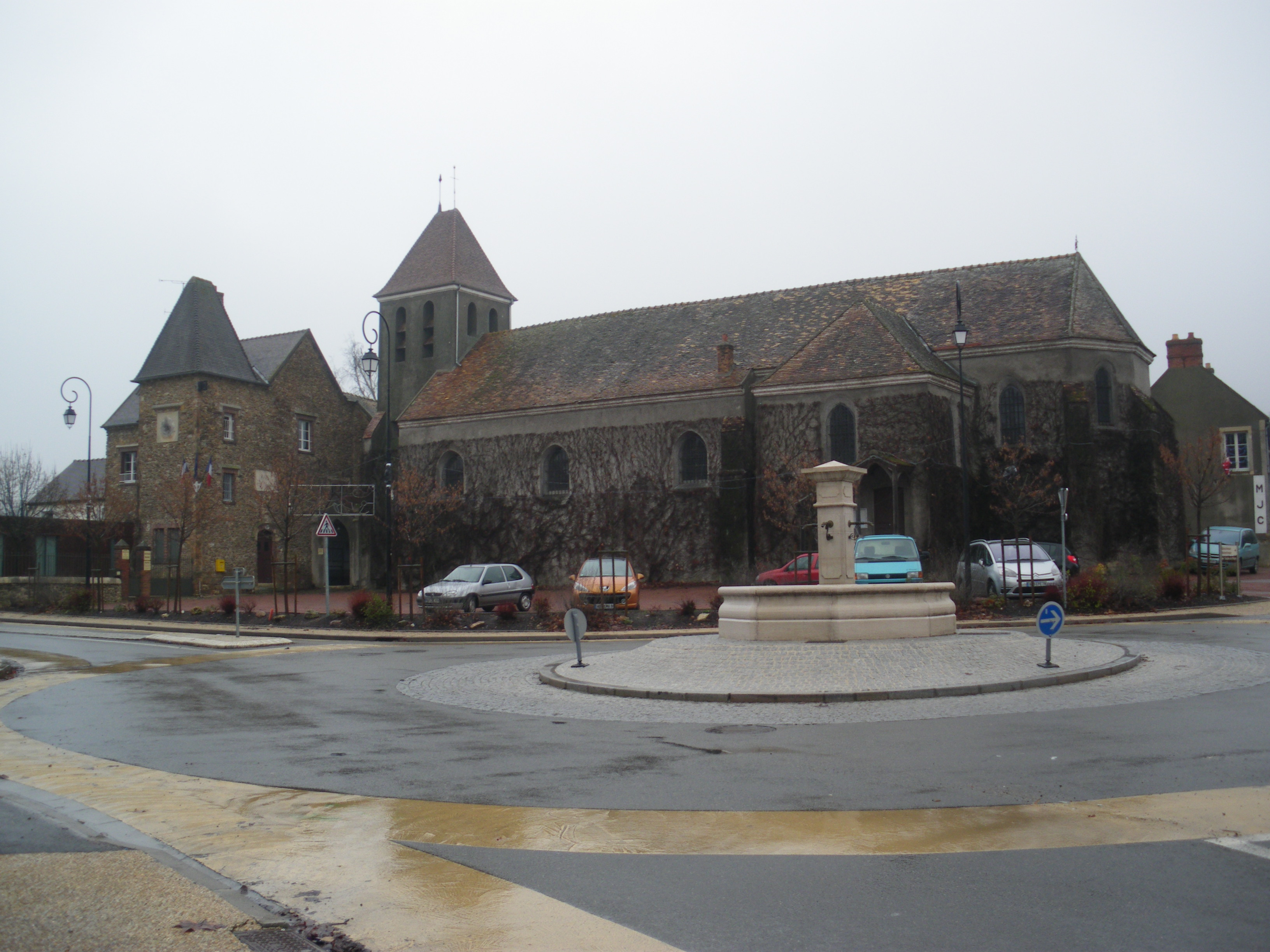 down town Fontenay-lès-Briis, Essonne, France